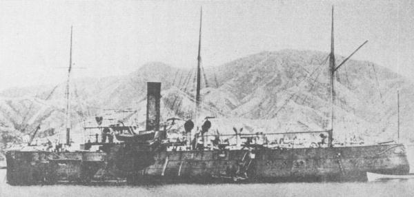 Japanese Cruiser "Kohei" at Kure Port.